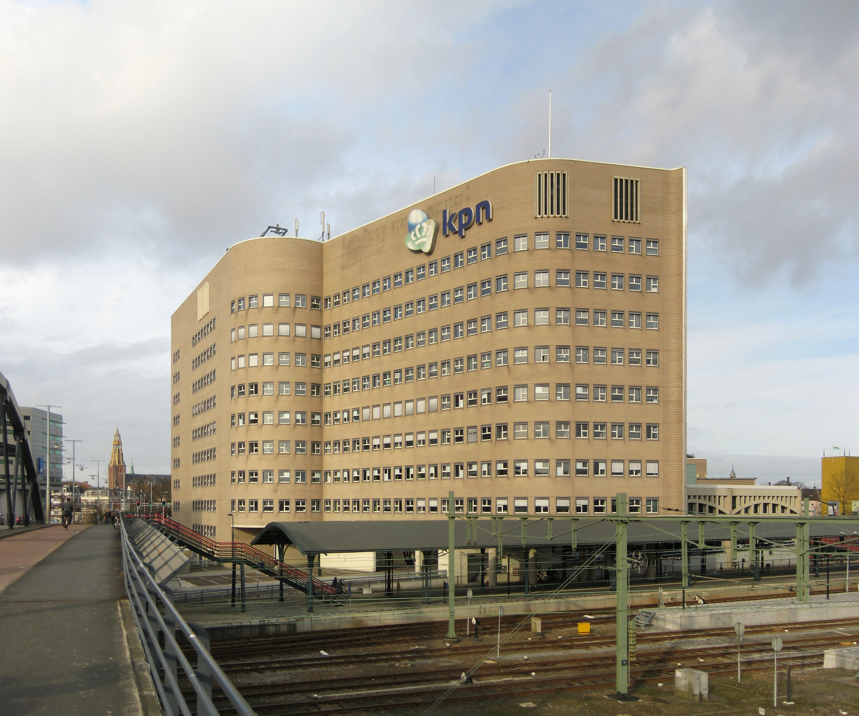 Office building (1985-1990) in the Dutch city of Groningen.